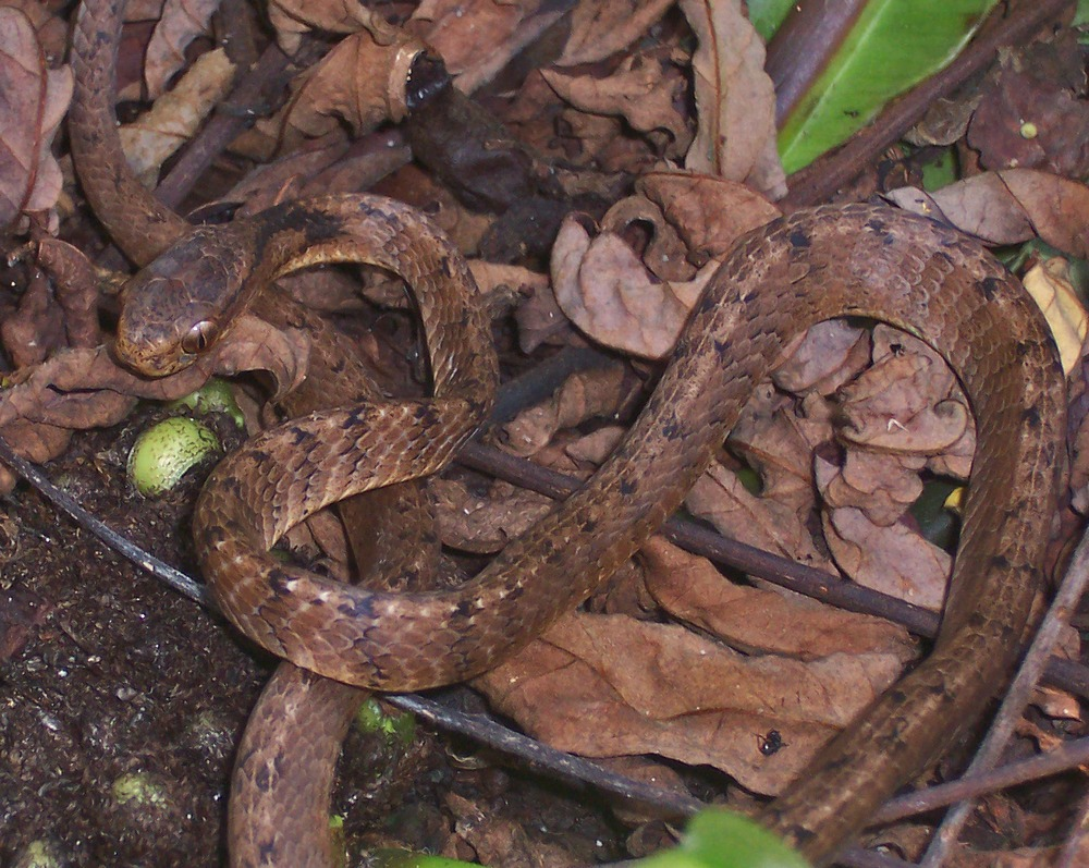 Pareas carinatus, from Bogor, West Java, Indonesia